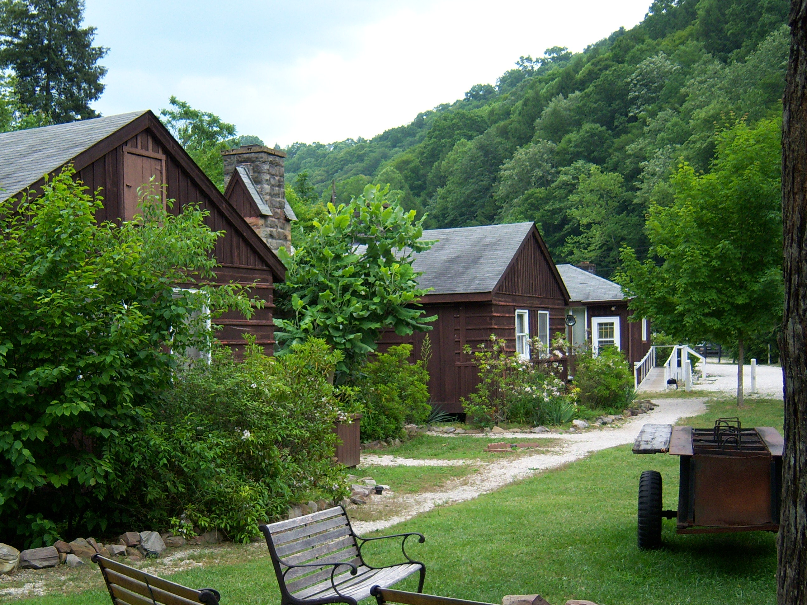 Robinson forest classrooms and cabins at Robinson Forest in Clayhole, Kentucky.